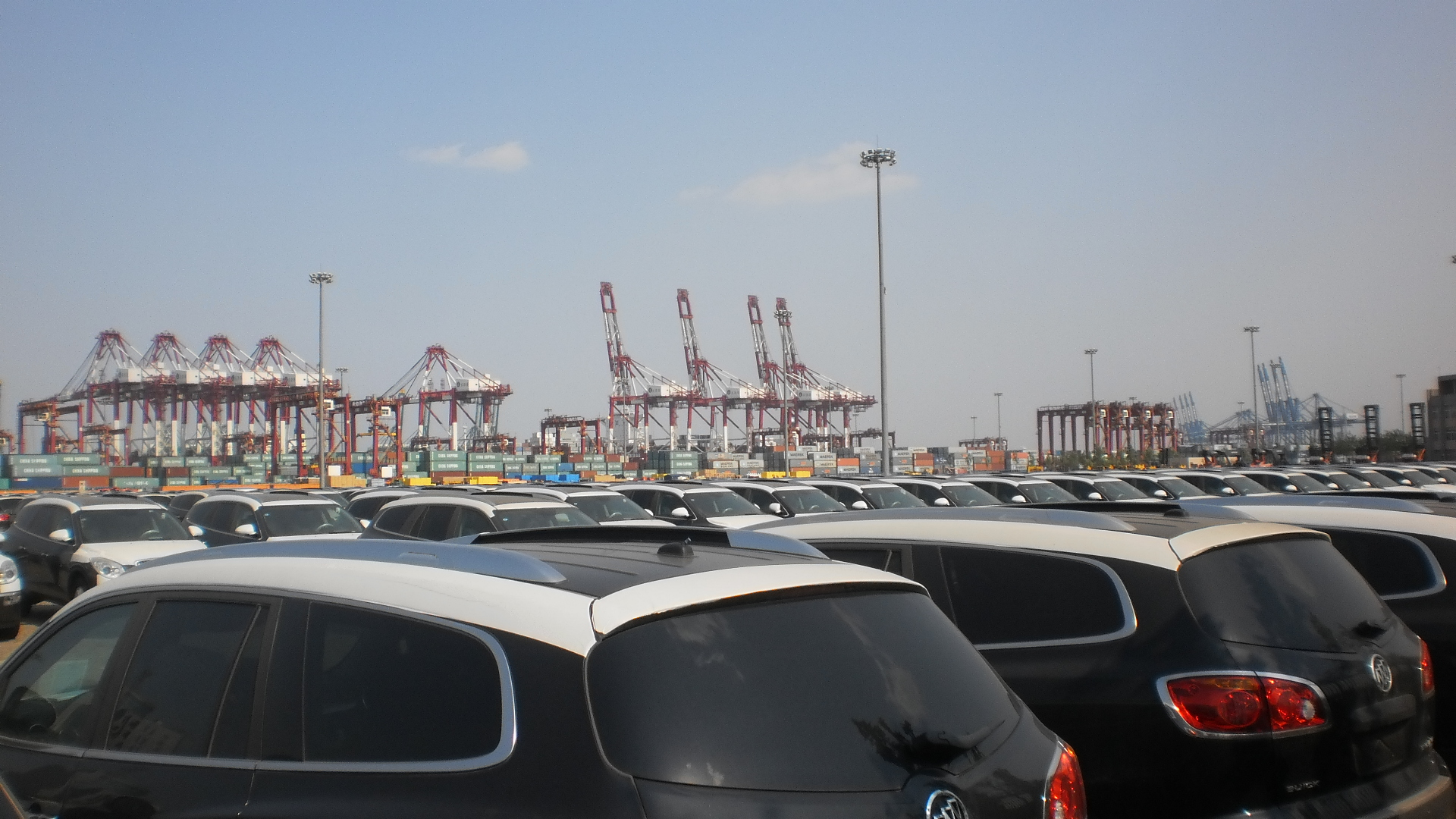 Cranes of the Tianjin Port Alliance Terminal and new car lot of the Ro-ro terminal.